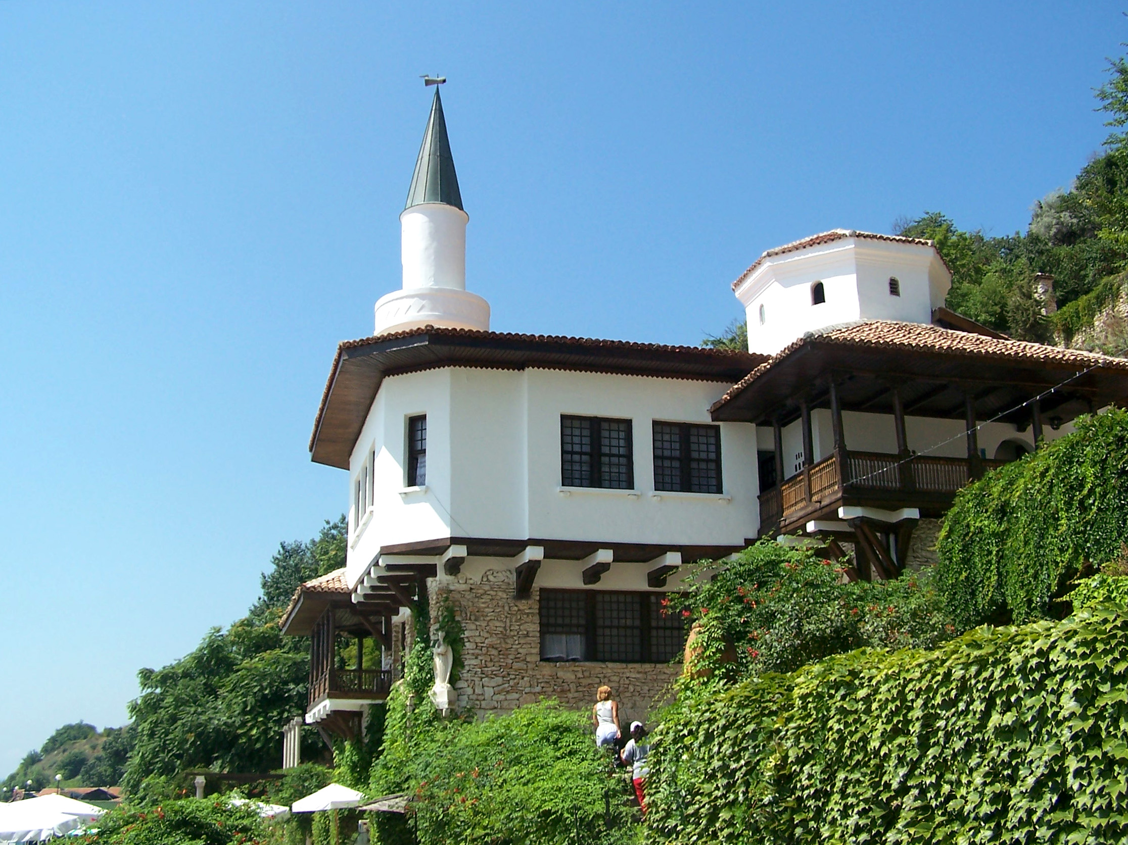 Balchik